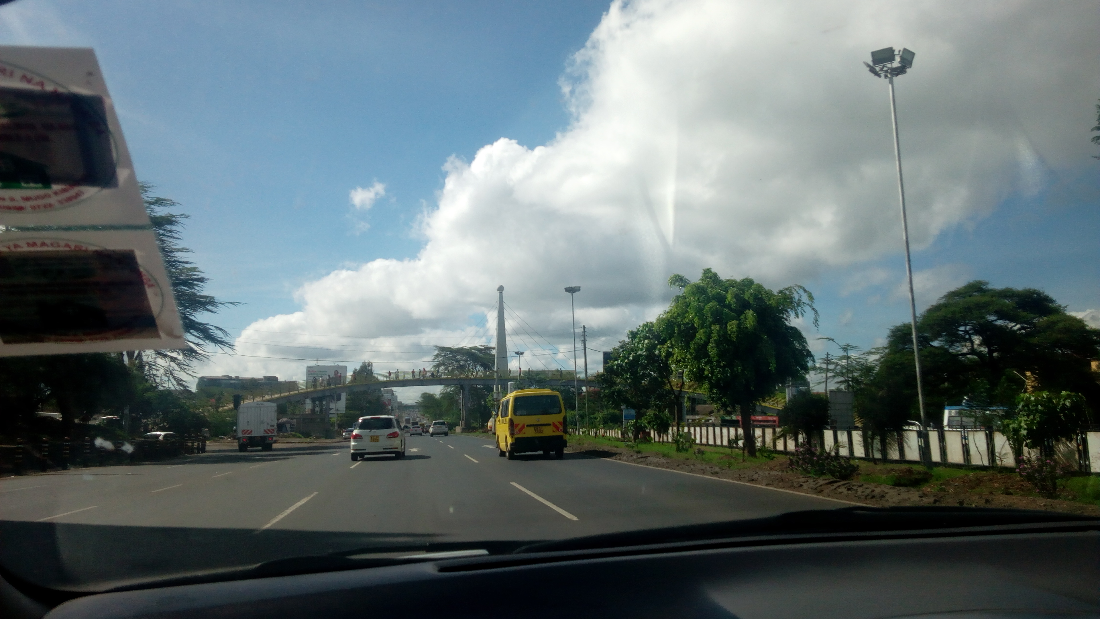 The A1 road is one of the major road networks in Kenya. This is a view of the road as one heads to the airport in Embakasi. This is an image with the theme "Africa on the Move or Transport" from: Kenya